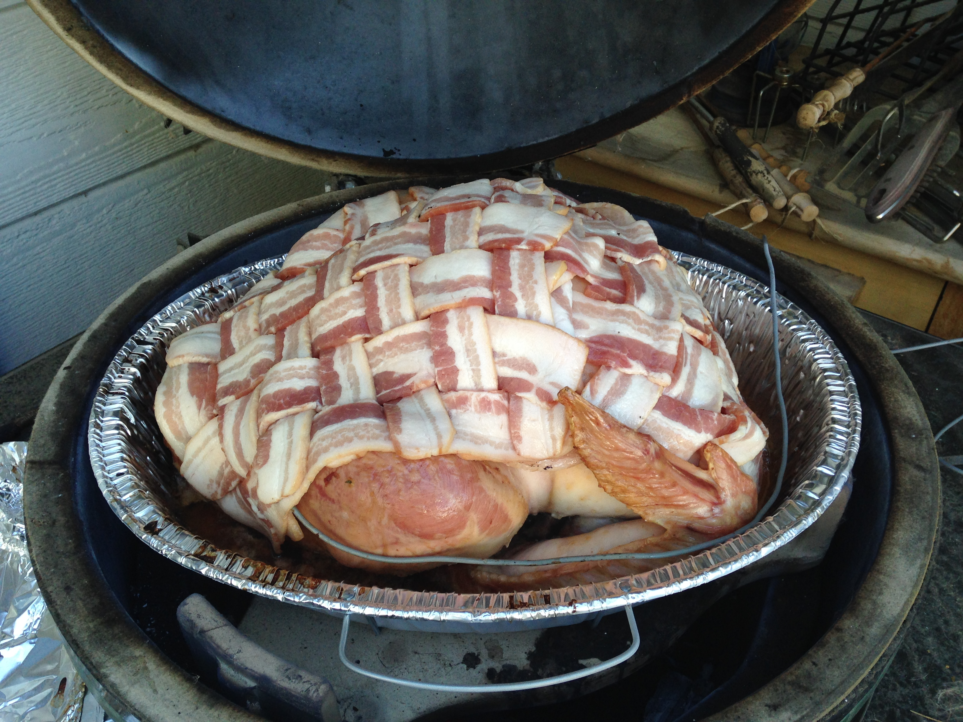 Uncooked bacon wrapped turkey, 27 November 2014, about to be BBQ'd in a large size Big Green Egg